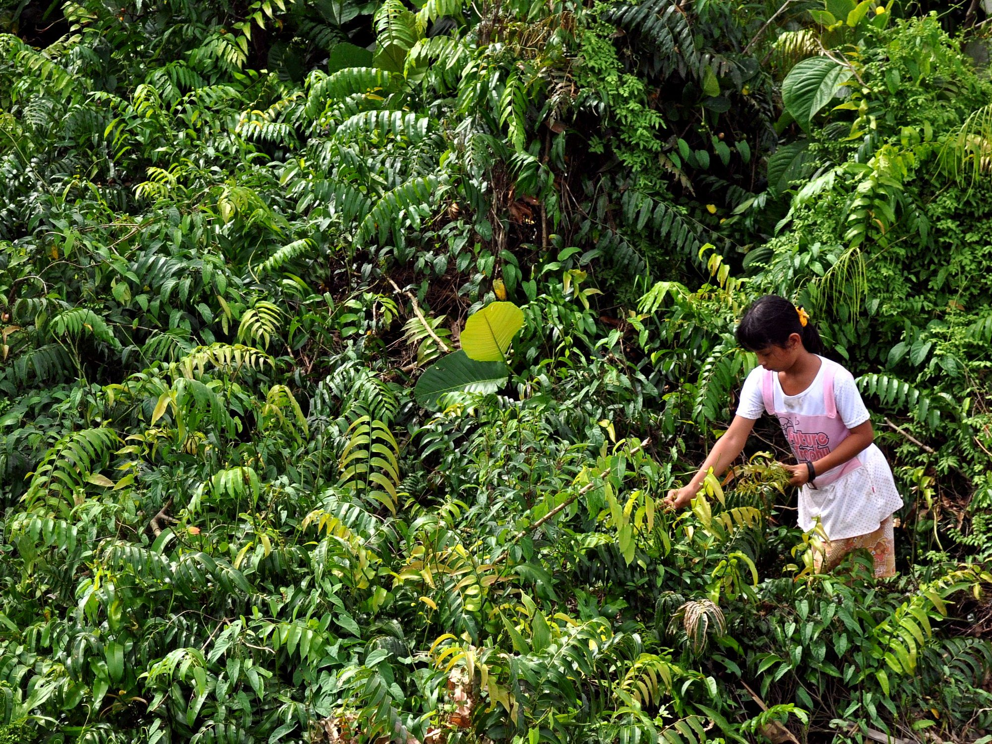 Stenochlaena palustris, shoots harvested by young girl in West Kalimantan, Indonesia.